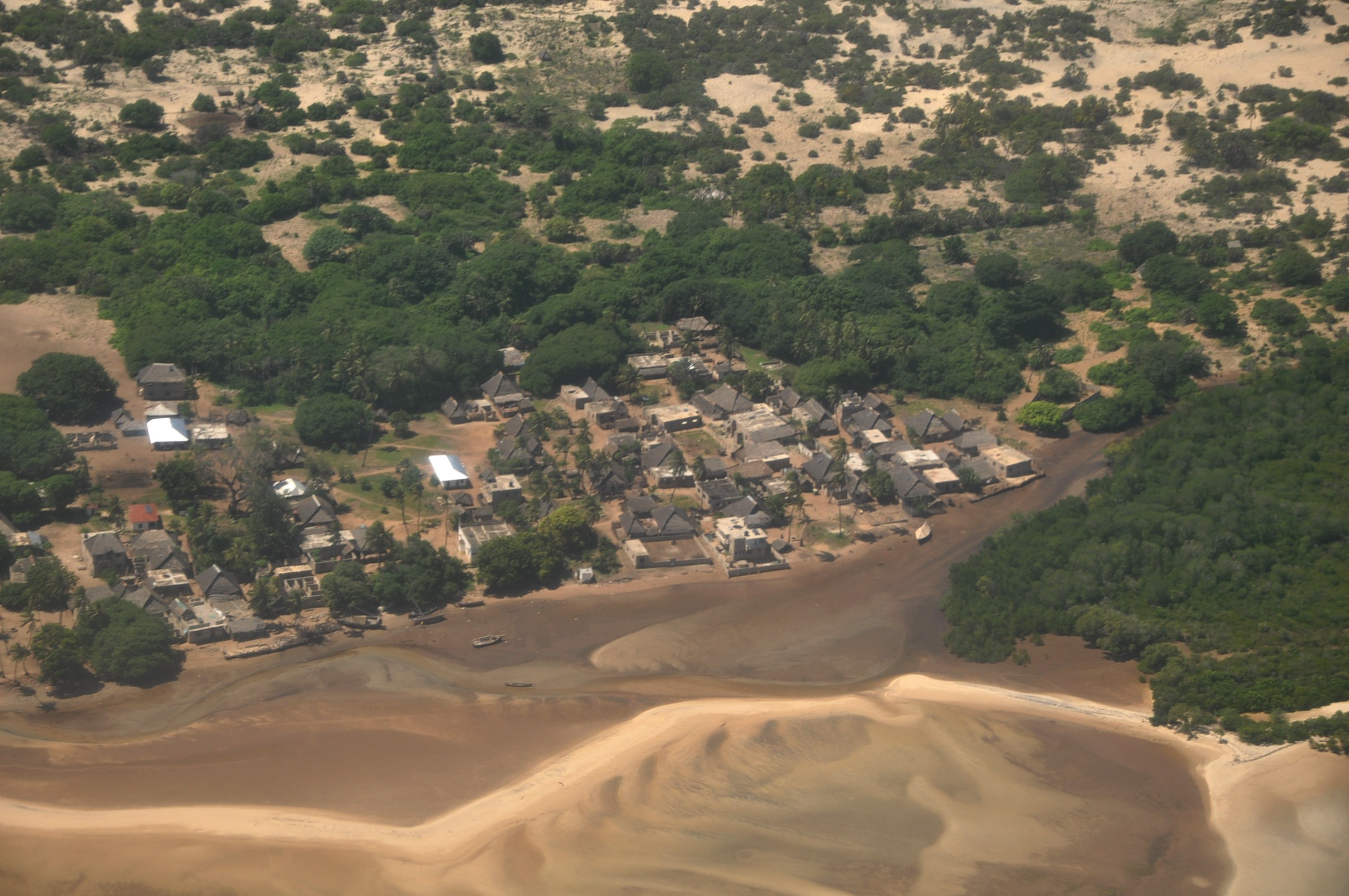 Kipungani is one of the four settlements on Lamu Island, Kenya. (The other three are Lamu town, Matondoni and Shela).